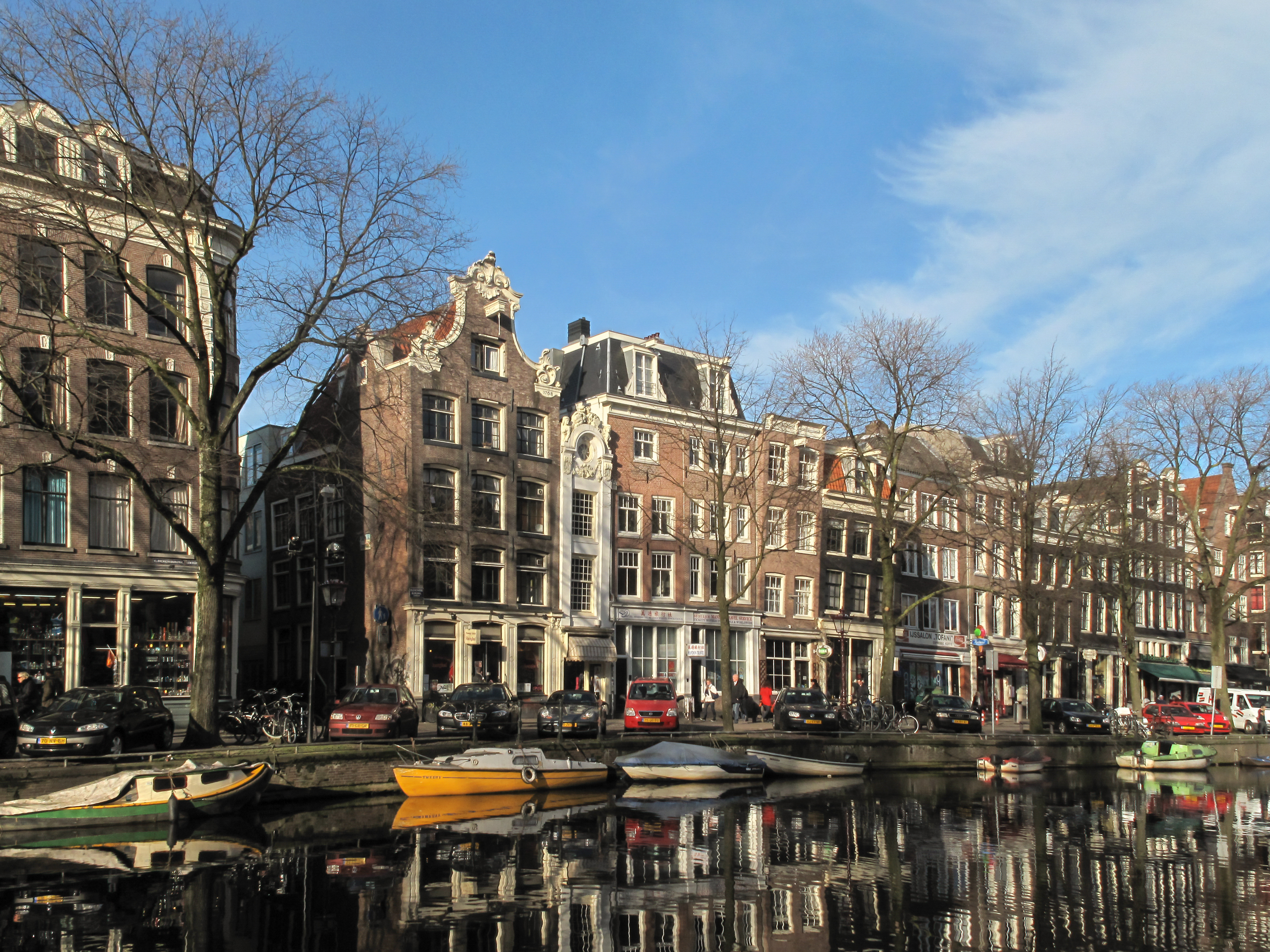 Amsterdam, view to a street:de Kloveniersburgwal This is an image of rijksmonument number 3017 This is an image of rijksmonument number 3018 This is an image of rijksmonument number 3019 This is an image of rijksmonument number 3020 This is an image of rijksmonument number 3021 This is an image of rijksmonument number 3022